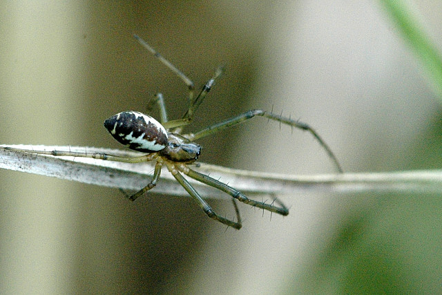 male Linyphia triangularis from Commanster, Belgian High Ardennes .